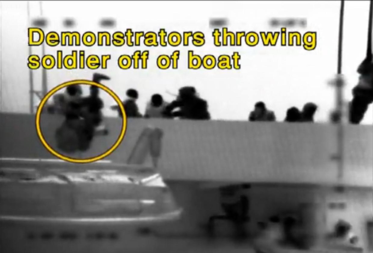 IDF soldiers who boarded the Mavi Marmara ship in order to enforce the maritime closure on Gaza, were met with a violent mob armed with clubs, slingshots, saws, knives, and used live fire against the IDF soldiers. Pictured here: A still taken from video footage showing the flotilla passengers throw a soldier off the deck of the ship. For the video footage click here